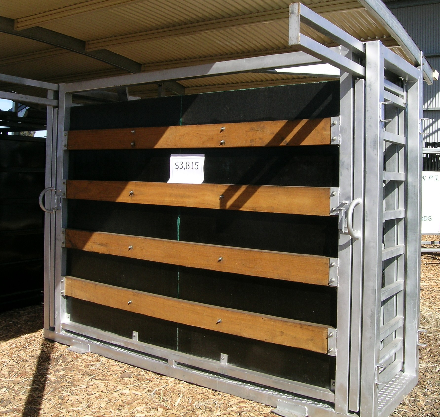 Scanning & weighing crush for cattle. The timber sides increases the accuracy of the tag scanning.